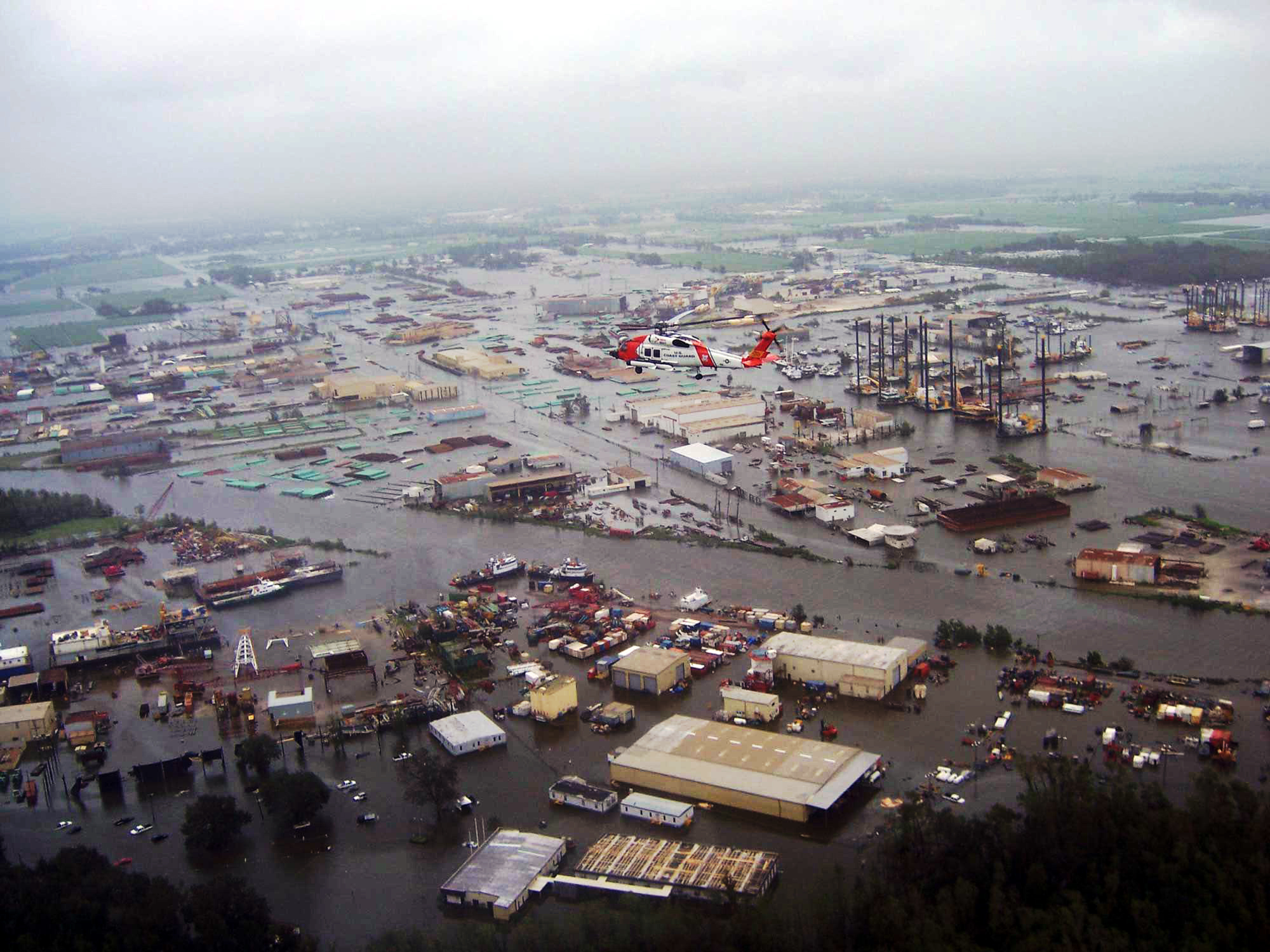 Coast Guard Jayhawk 6031 from Air Station Elizabeth City, N.C. flies over flooded areas in New Iberia, La., Sunday, Sept. 14, 2008. Coast Guard helicopter crews began flying over flooded areas looking for signs of people in distress after Hurricane Ike reached the Gulf Coast causing tremendous devastation to many areas in Louisiana and Texas.